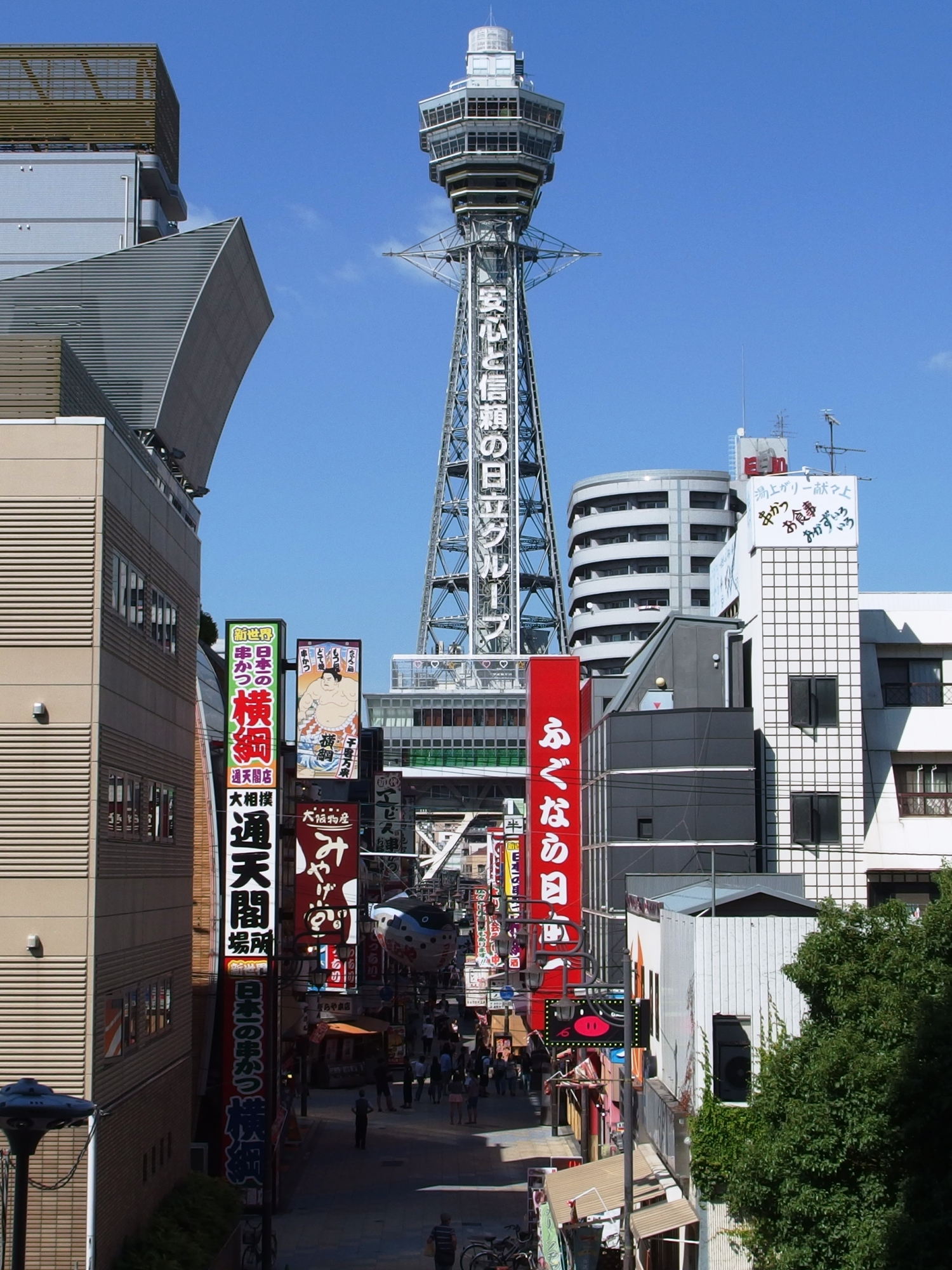 Shinsekai, Osaka, Osaka Prefecture, Japan